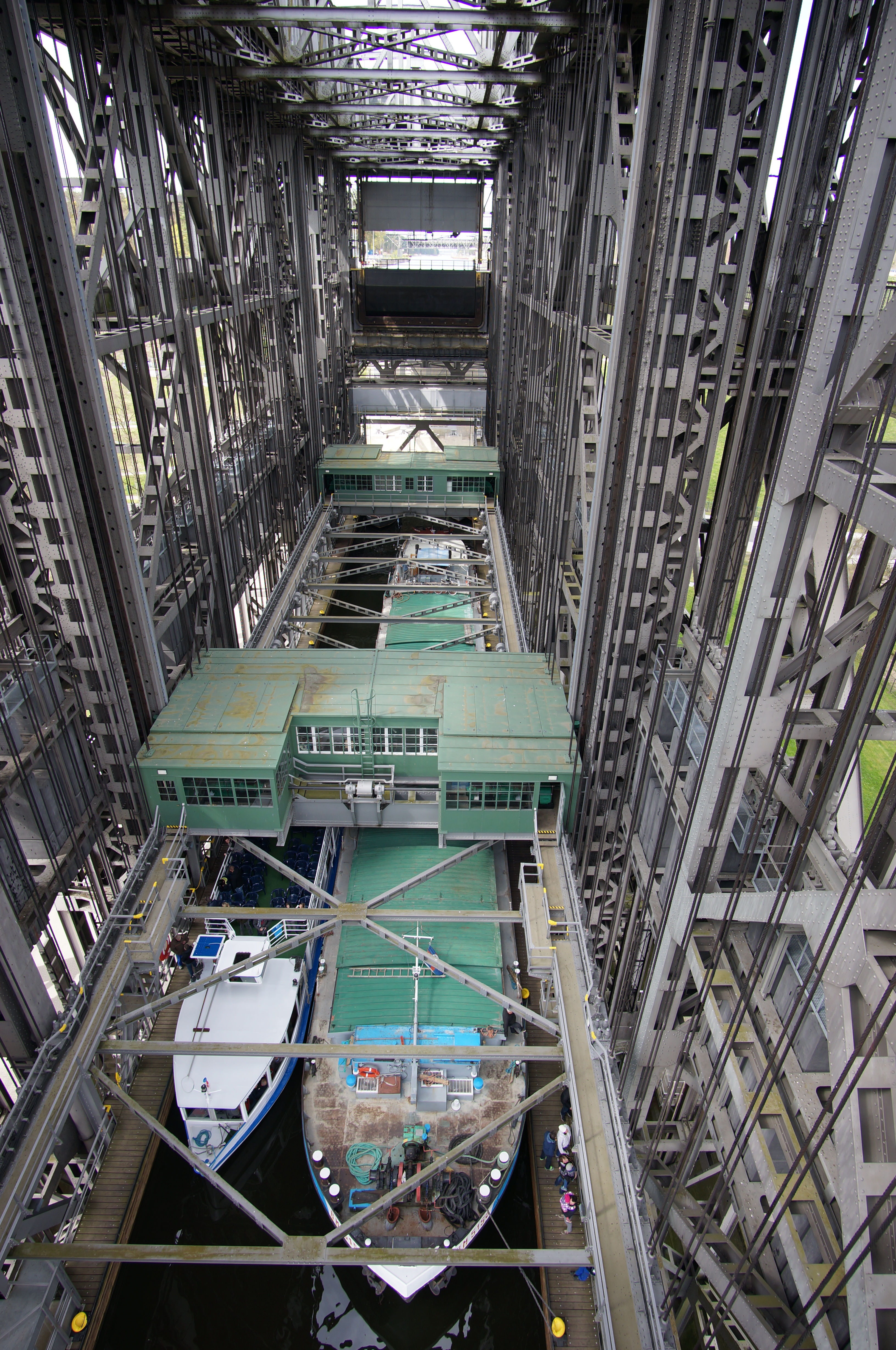 Ship lift Niederfinow. Constructed 1928-1934